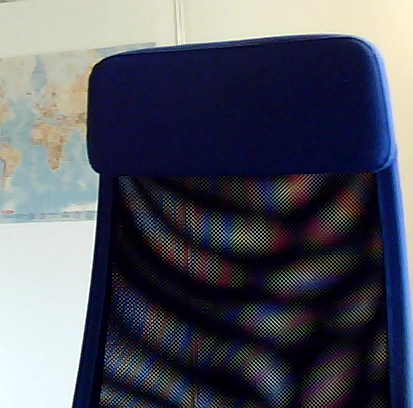 A double moiré effect in the back of an office armchair. The first one, human visible, is the light/dark moiré resulting from the 2 layers of black net, separated by a few millimeters. The second one, coloured and visible in the light zones, is a digitization artefact by the RGB matrix of a lowres webcam.